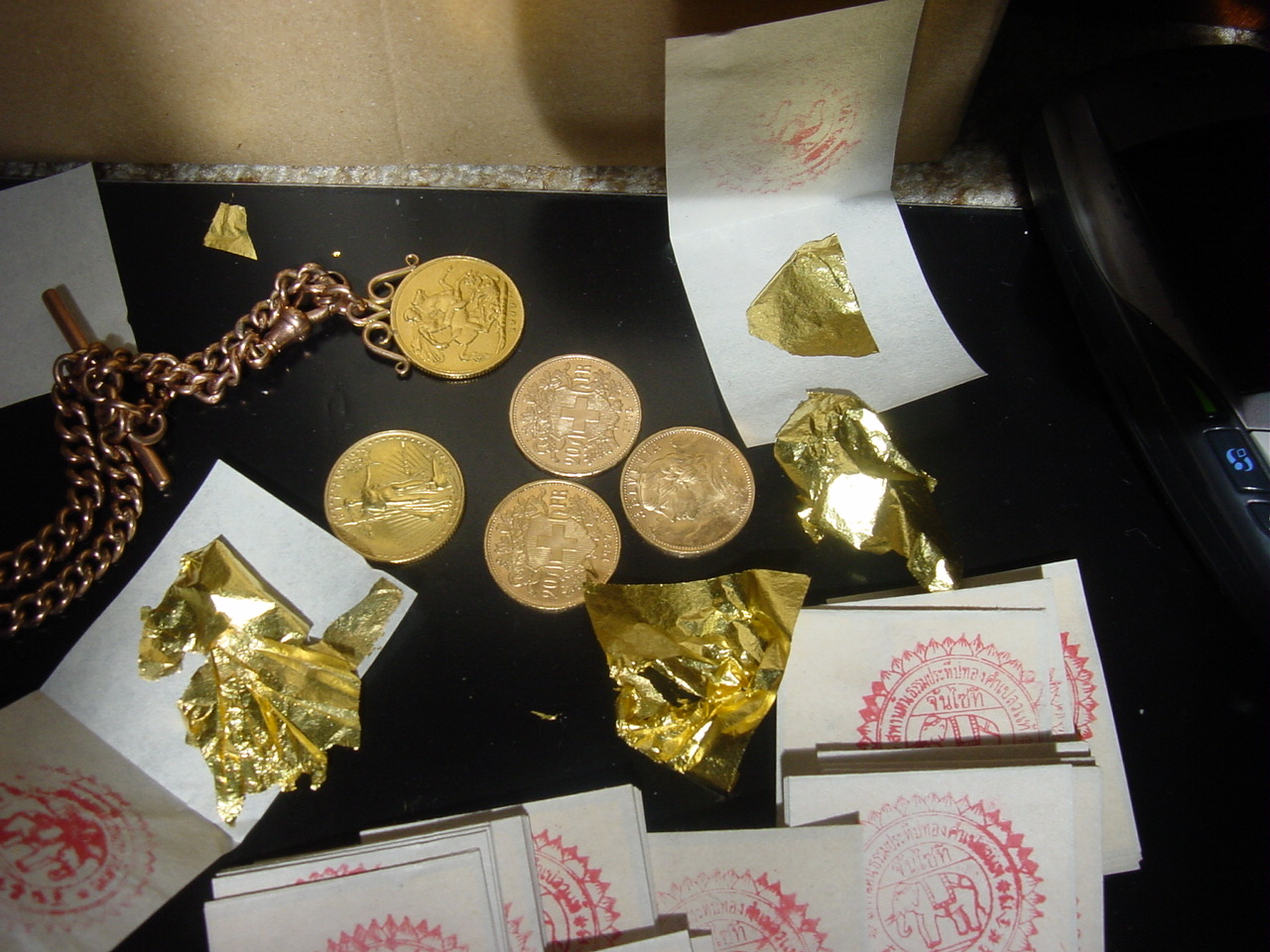 Here we see a Gold British Sovereign Raritet(£1) on a gold chain, an American Liberty Dollar, three Swiss Vreneli coins (Fr 20), and a pack of 100 gold leaves bought from Bangkok, Thailand. Each gold leaf is less than a micrometer thick (typically about 100 nm) and is so light and delicate that the smallest puff of air can blow it away.